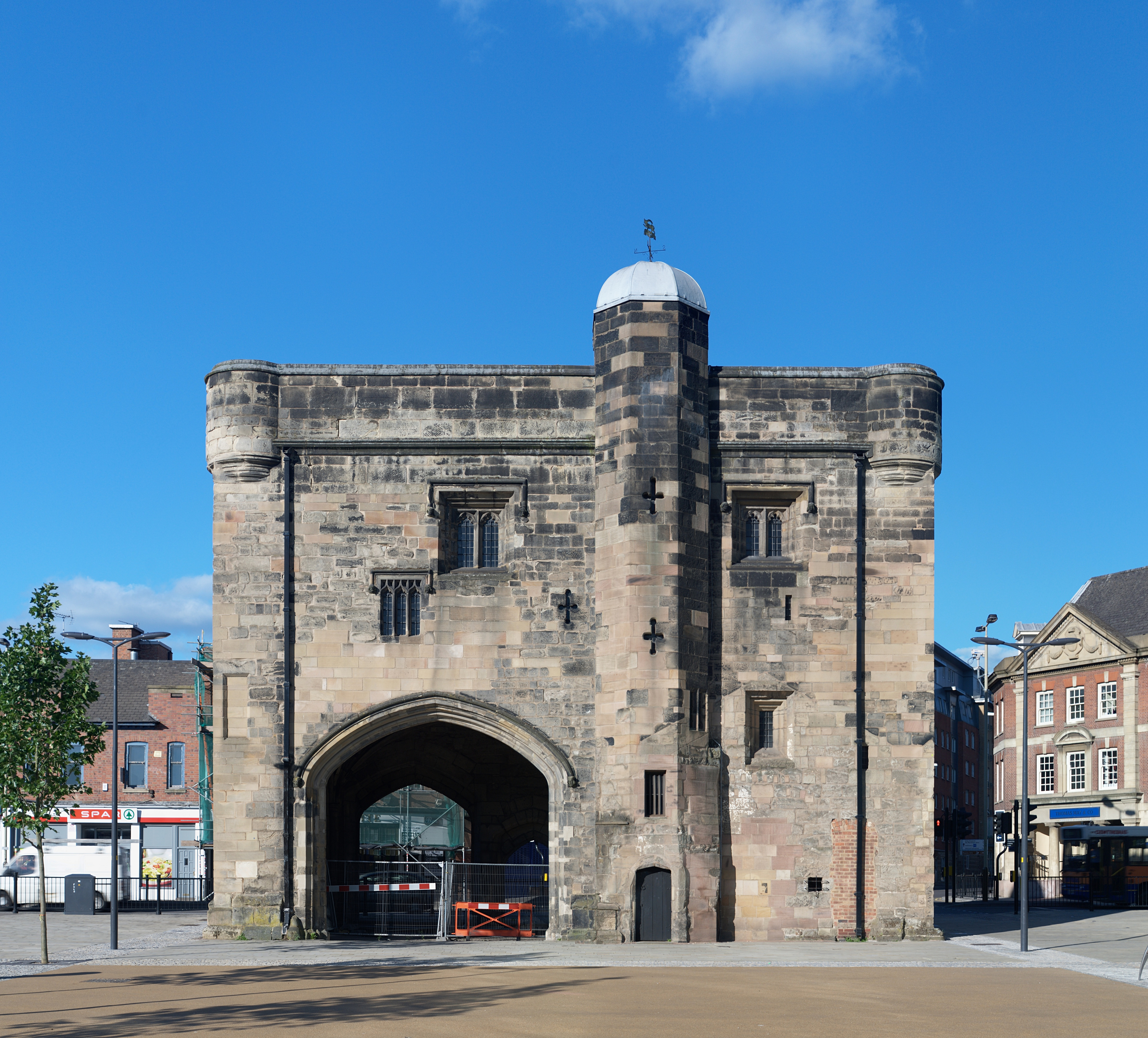 The west side of the Magazine Gateway in Leicester, England